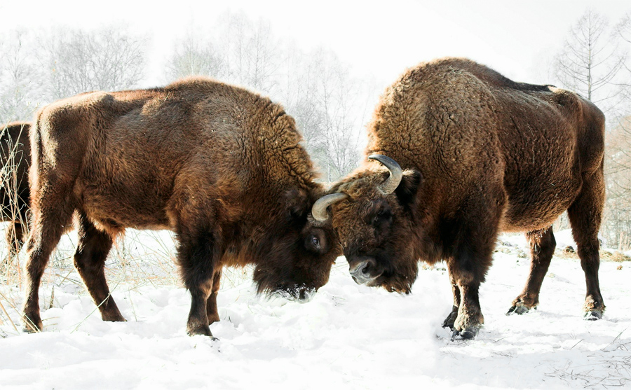 Bison bonasus nursery of the Russian Academy of Sciences in Shebalinsky District, Republic of Altai, Russia.